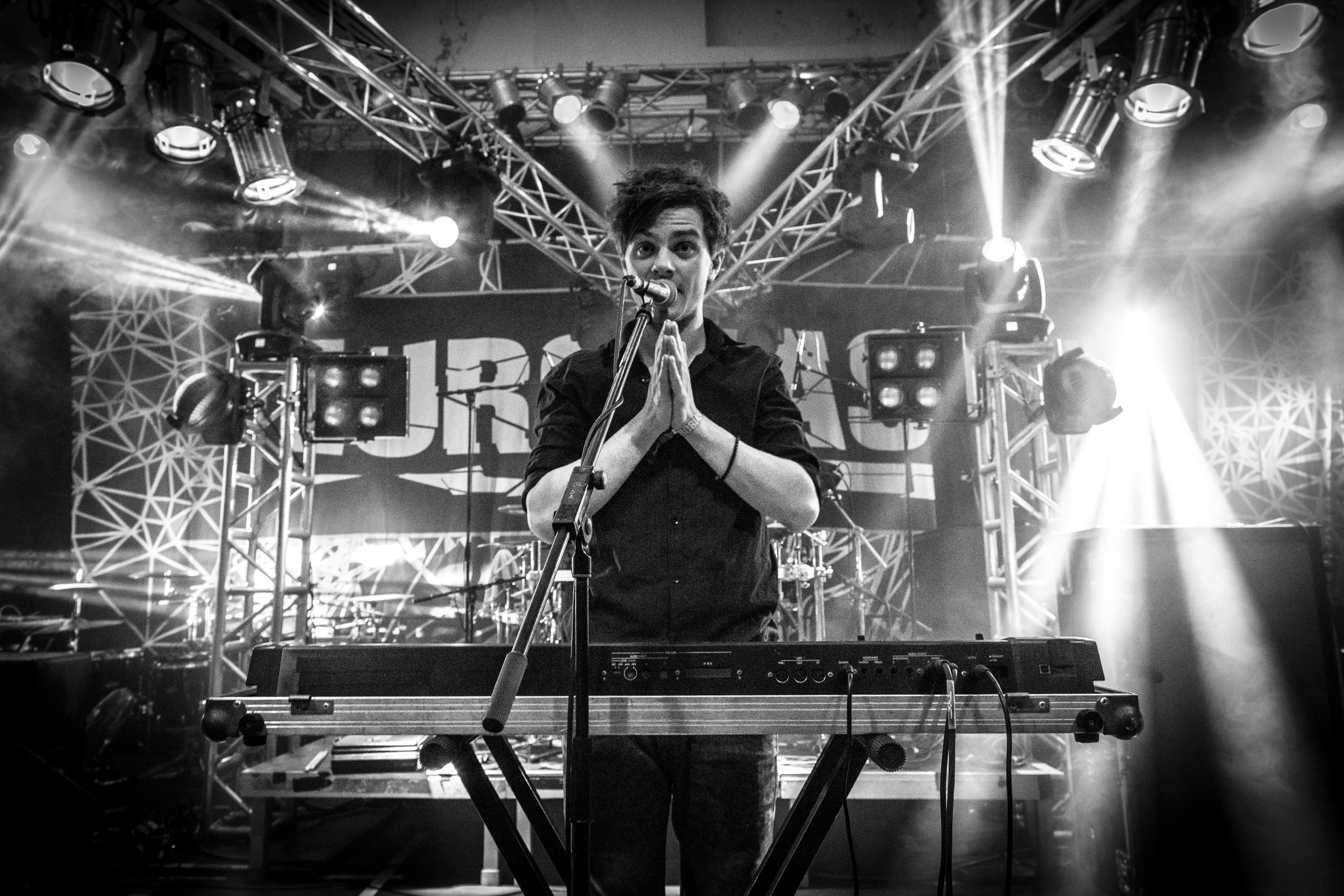 Disperse live at the Euroblast Festival in Cologne, 2016